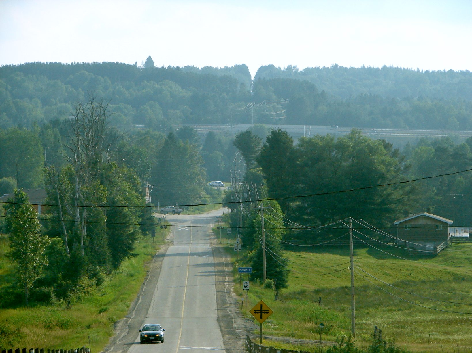 Elmsdale in Perry Township, Ontario, Canada